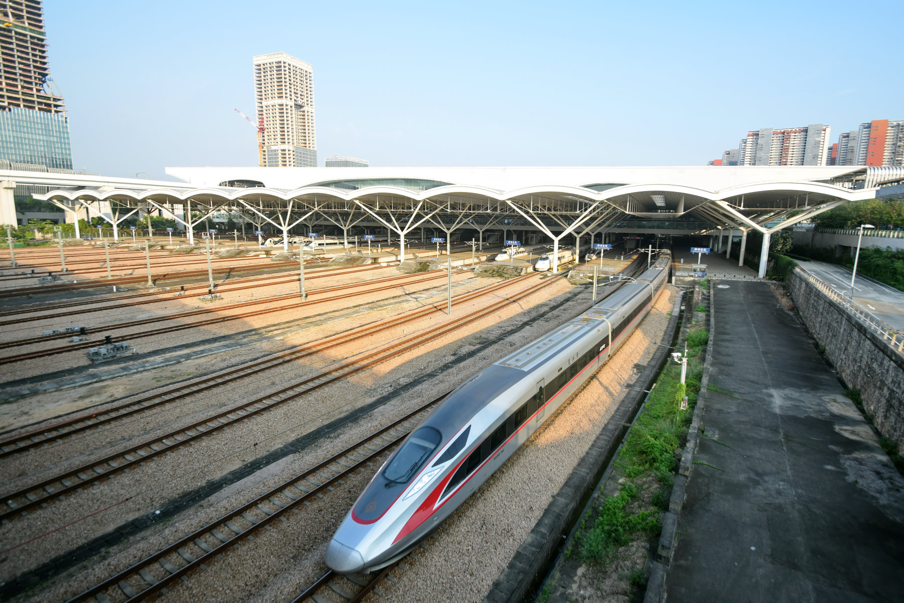 CR400AF-2062 EMU was departing from Shenzhen Bei (North) Railway Station.